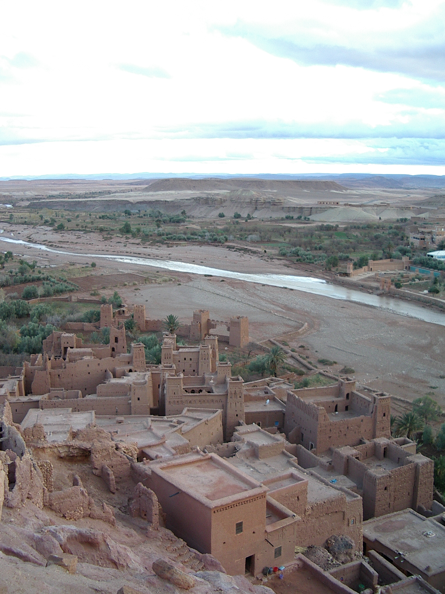 Casbah in Morocco